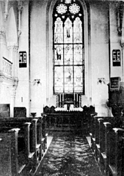 Lutheran church in evangelist hospital of Saint-Petersburg, Russia